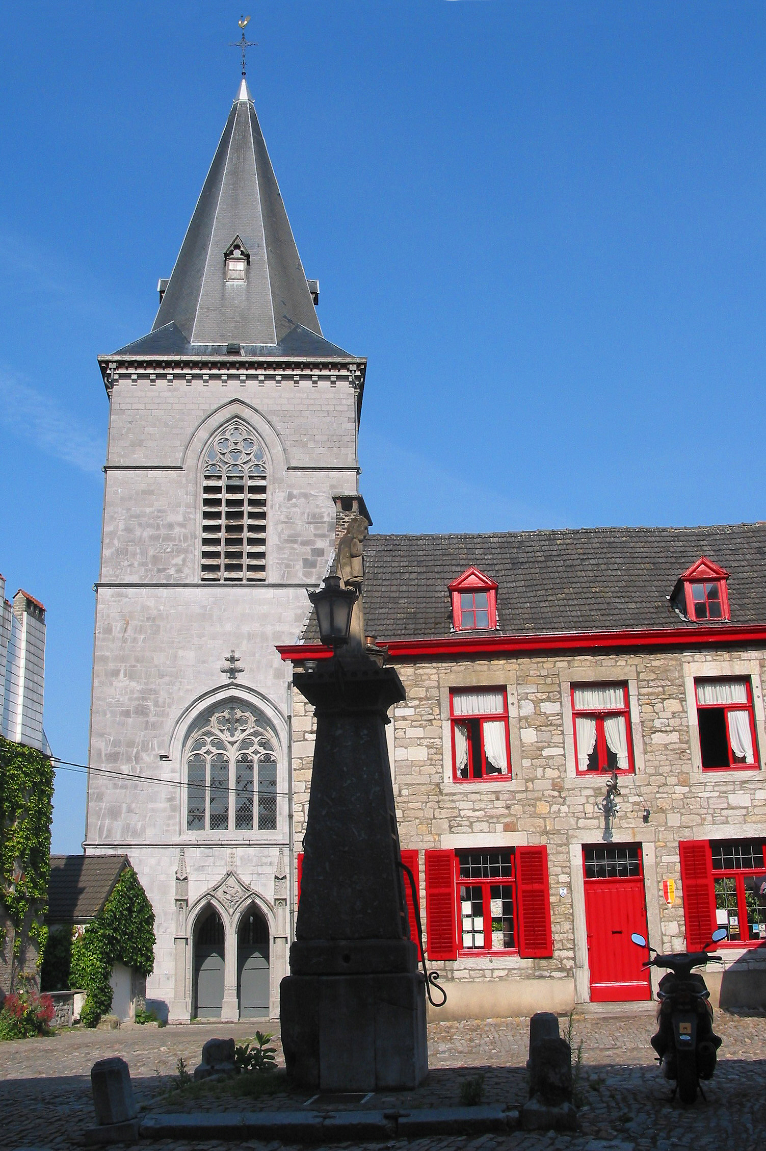 Limbourg (Belgium), the church of Saint George (XVth century) and the Holy Virgin water pump (XVIIth century).